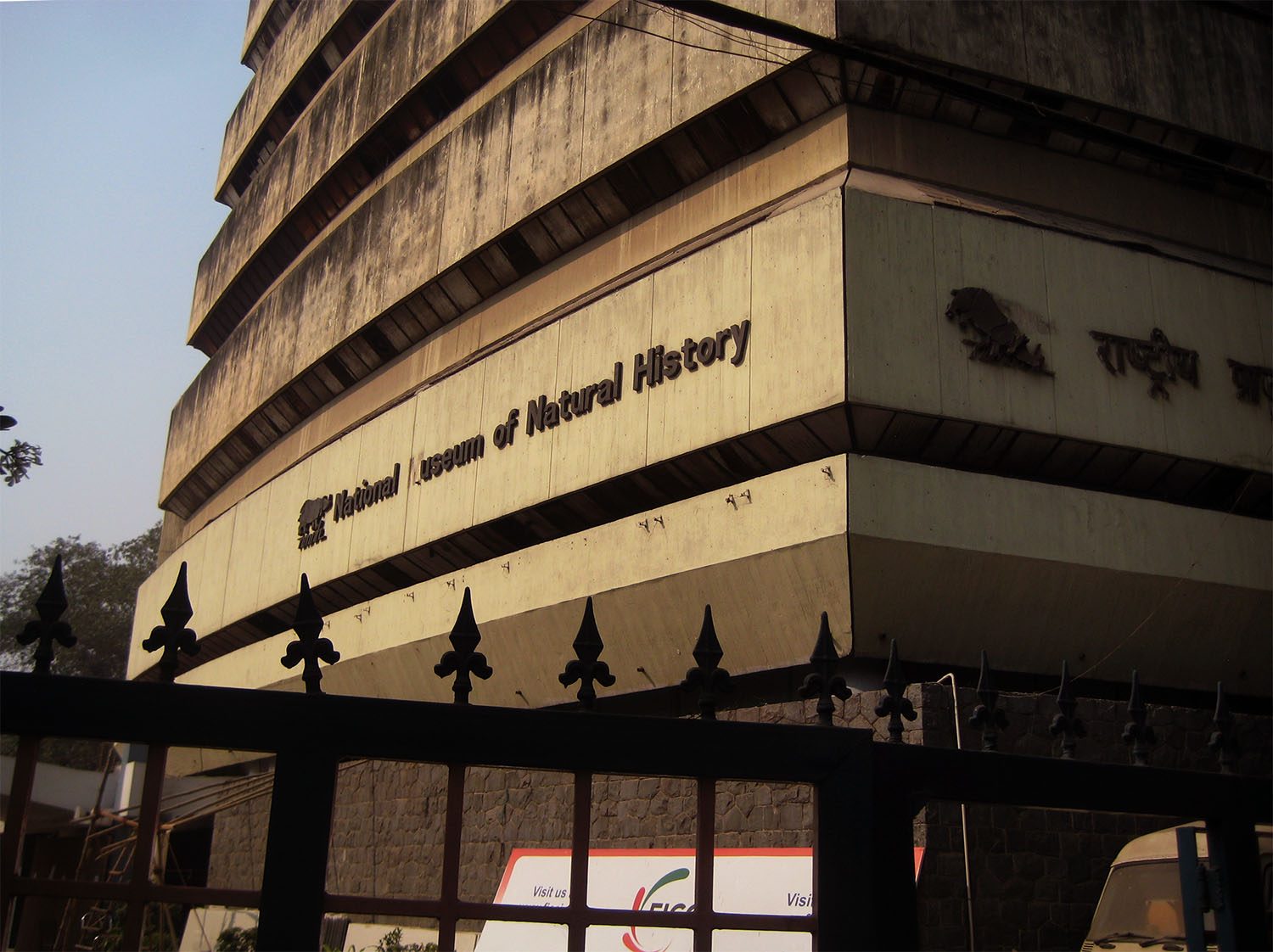 Outside the National Museum of Natural History, Government of India, Delhi